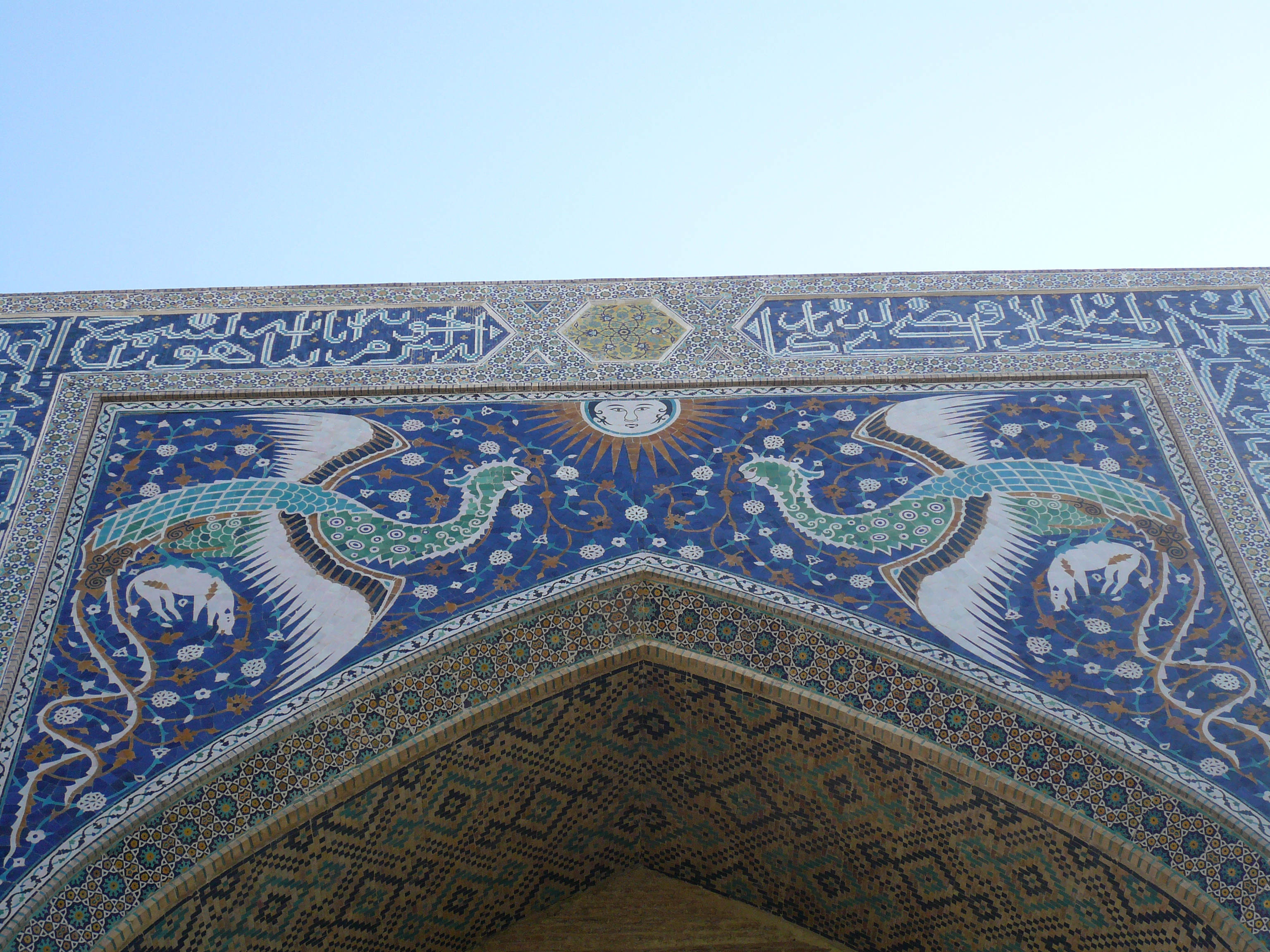 Simurghs. Medrese Divan-Begi, Bukhara, Uzbekistan